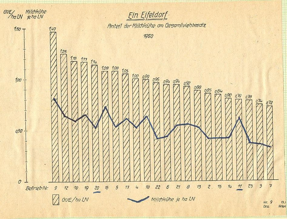 Percentage of milk cattle on total livestock